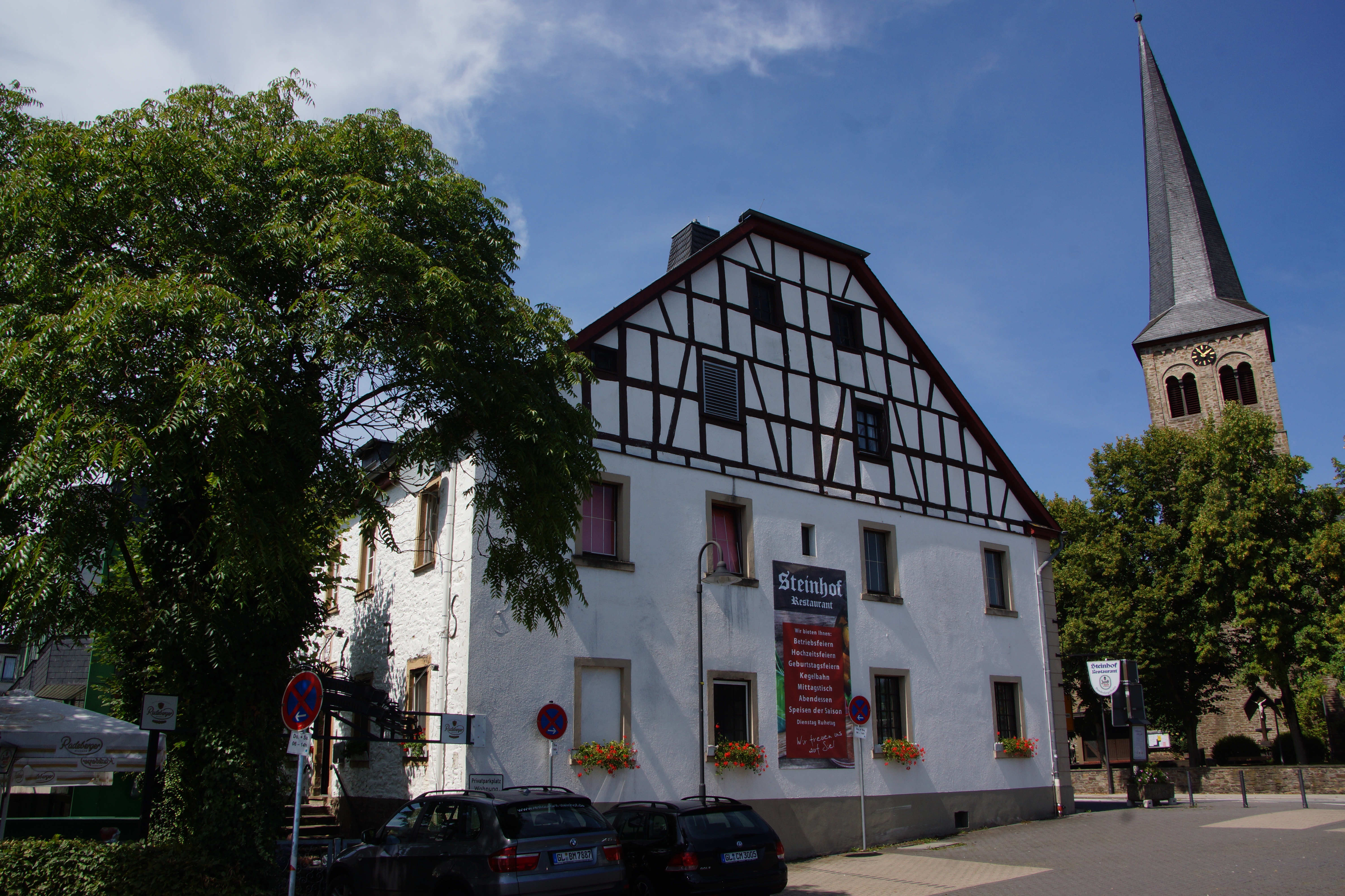 The Steinhof in Overath. This is a photograph of an architectural monument.